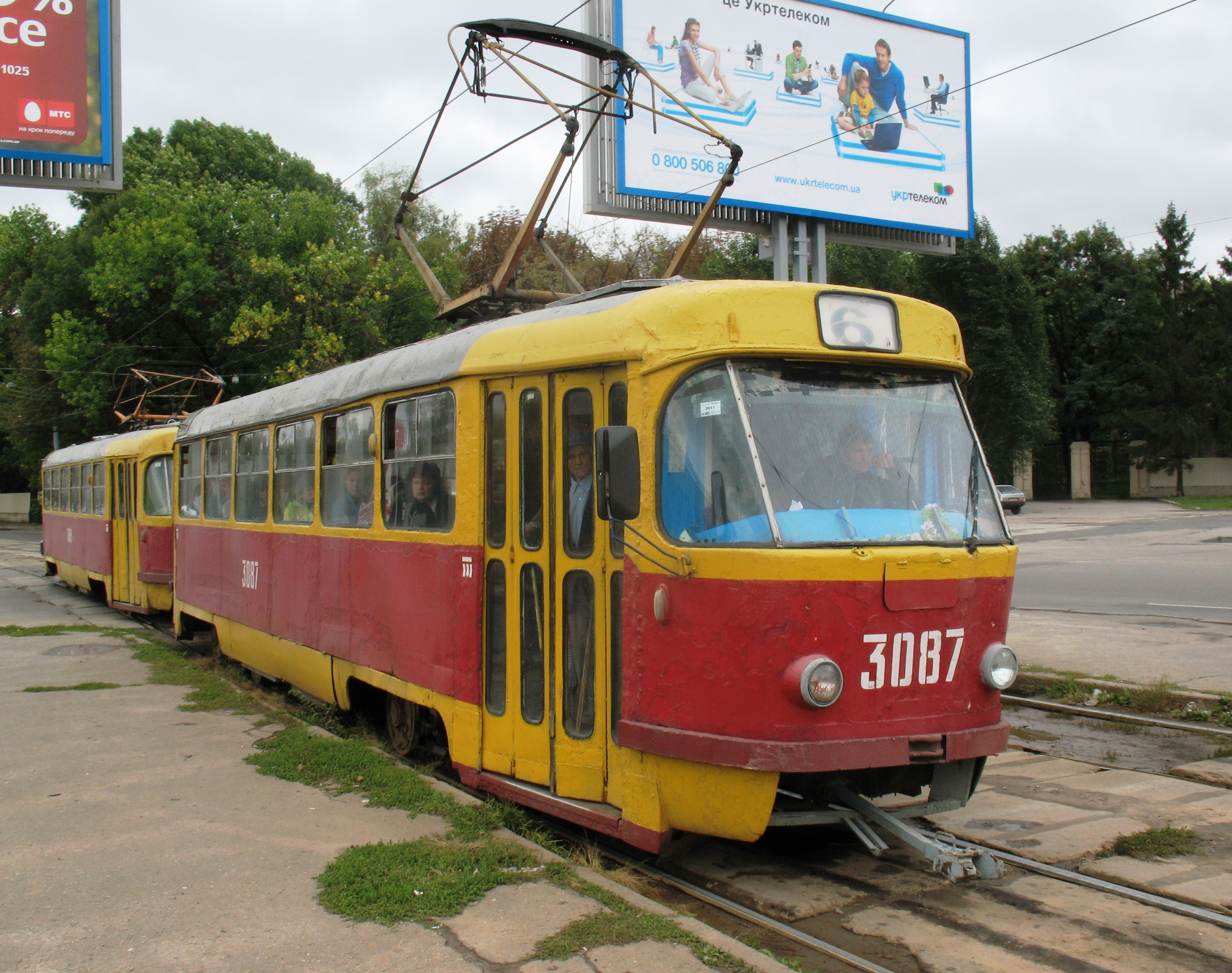 Kharkov City. Tram #6 Tatra T3.